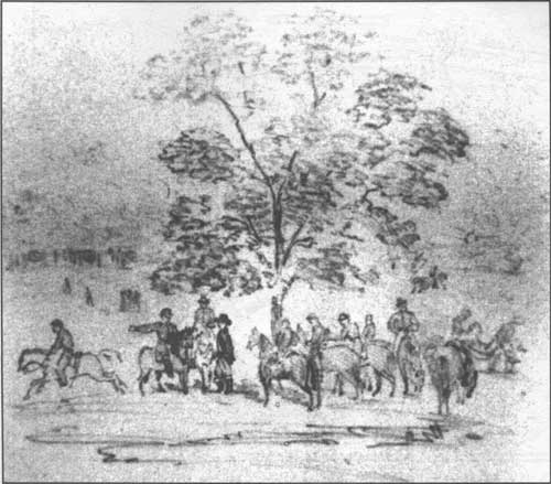 "Major General Sickles headquarters as we passed him going into action on the 2d of July at Gettysburg. I took this sketch on the spot." (Charles Reed)